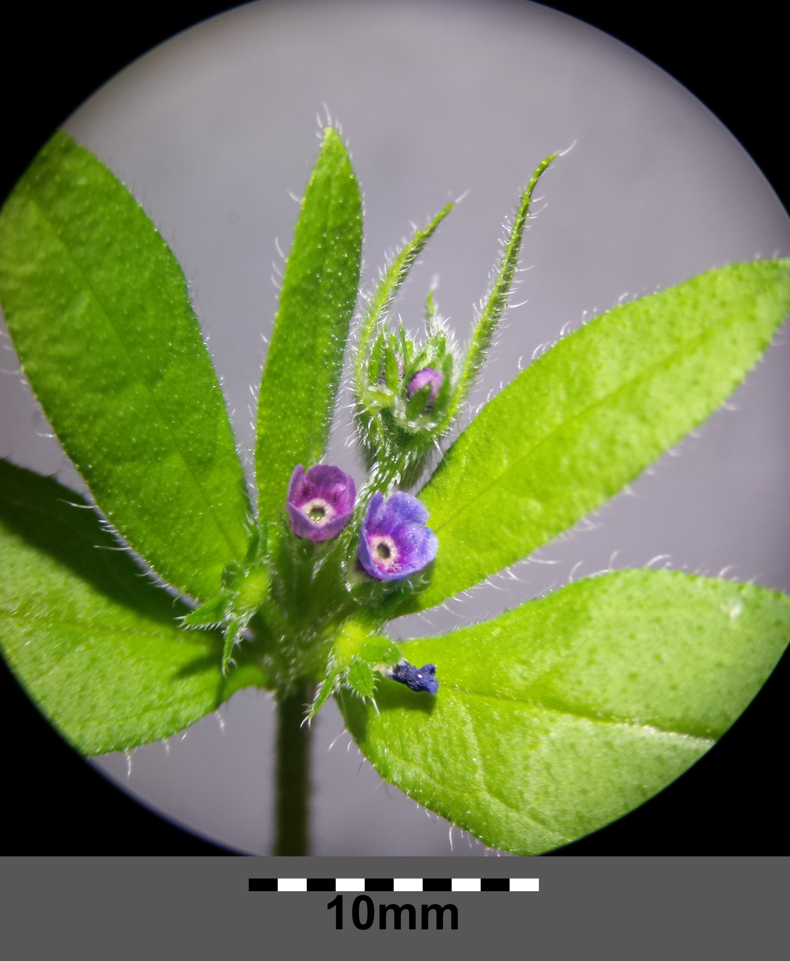 Inflorescence Taxonym: Asperugo procumbens ss Fischer et al. EfÖLS 2008 ISBN 978-3-85474-187-9 Location: Schwaigergasse, Vienna-Floridsdorf - ca. 160 m a.s.l. Habitat: shrubbery